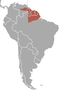 Pale-throated Sloth (Bradypus tridactylus) range